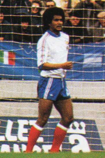 Gérard Janvion of France during the group stage match vs Italy of FIFA World Cup 1978 in Argentina.